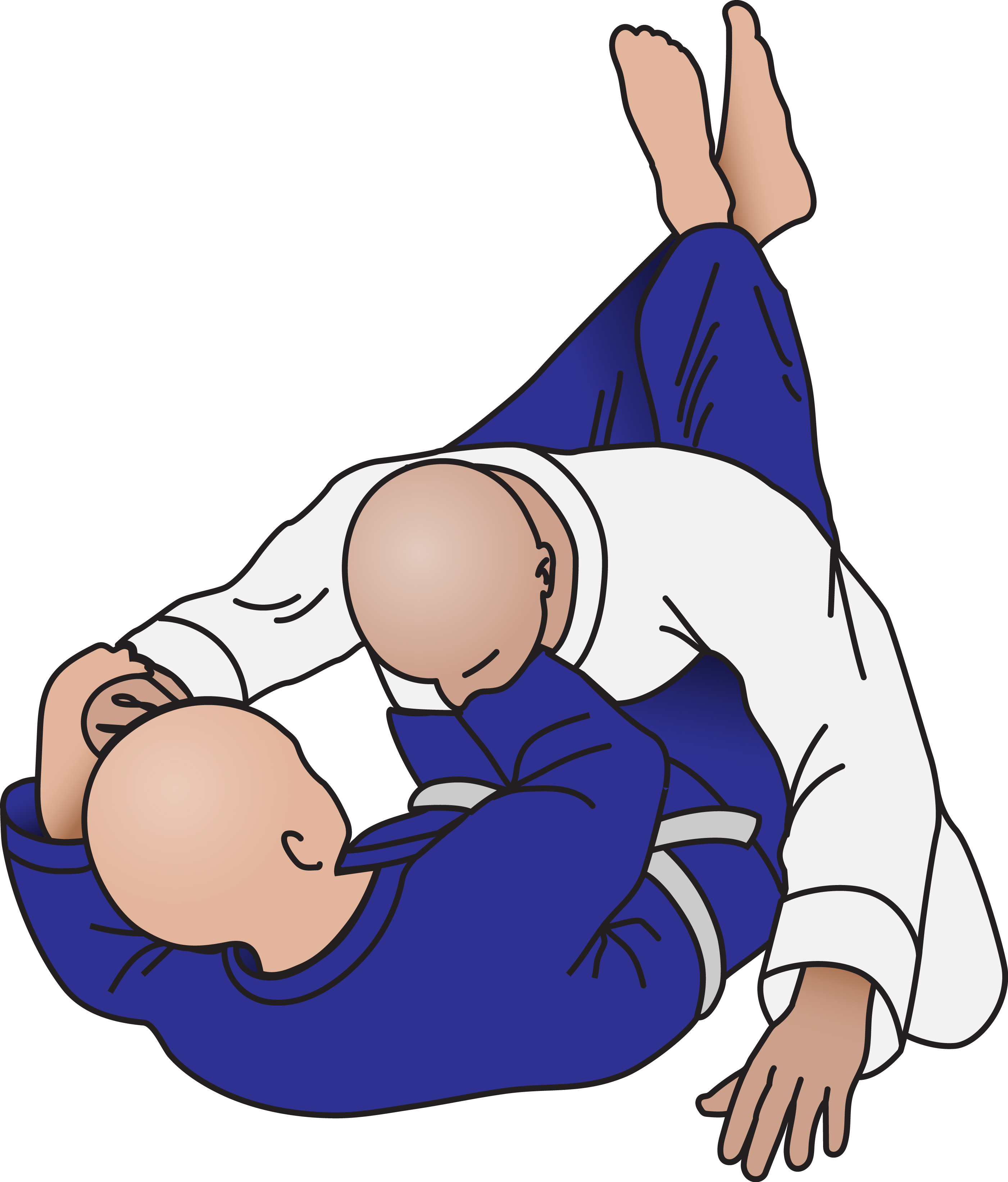 Do-Jime is one of the constriction techniques in Judo. It involves squeezing the opponent with the practitioners legs.